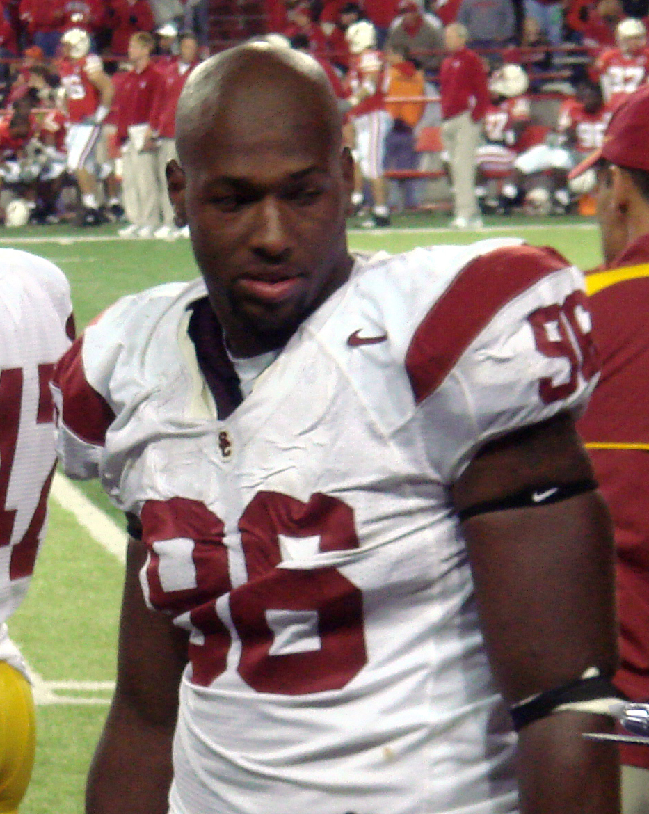 Defensive End Lawrence Jackson on the sideline during the final minutes of a USC victory over Nebraska.